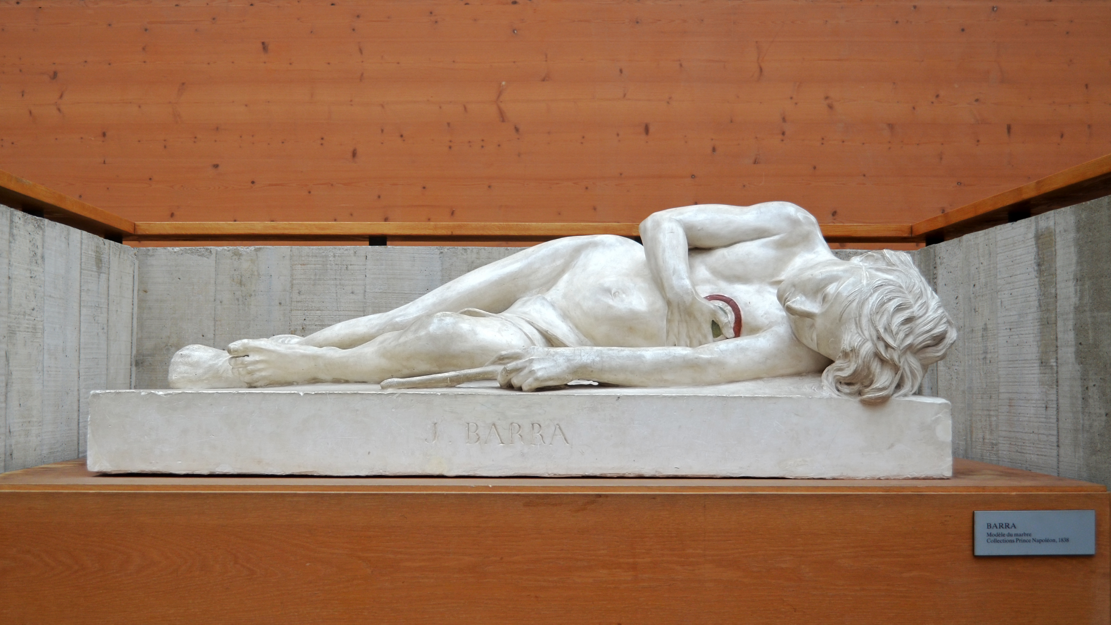 Joseph Bara, also written Barra, by french sculptor David d'Angers (1838). Exhibited in David d'Angers gallery, Angers, France